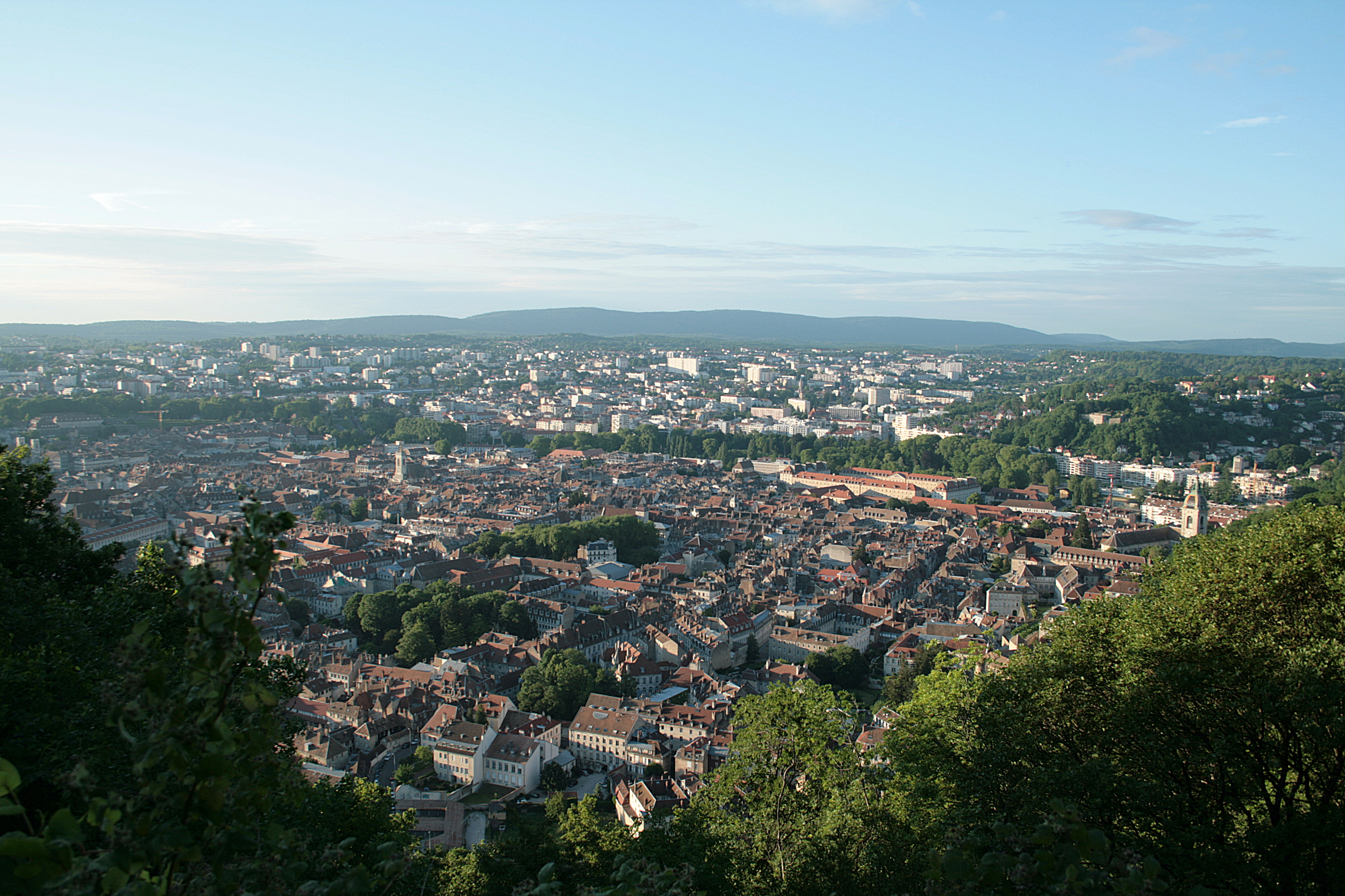 Besançon (Doubs - France), Doubs, city view from the road to Fort de Chaudane.